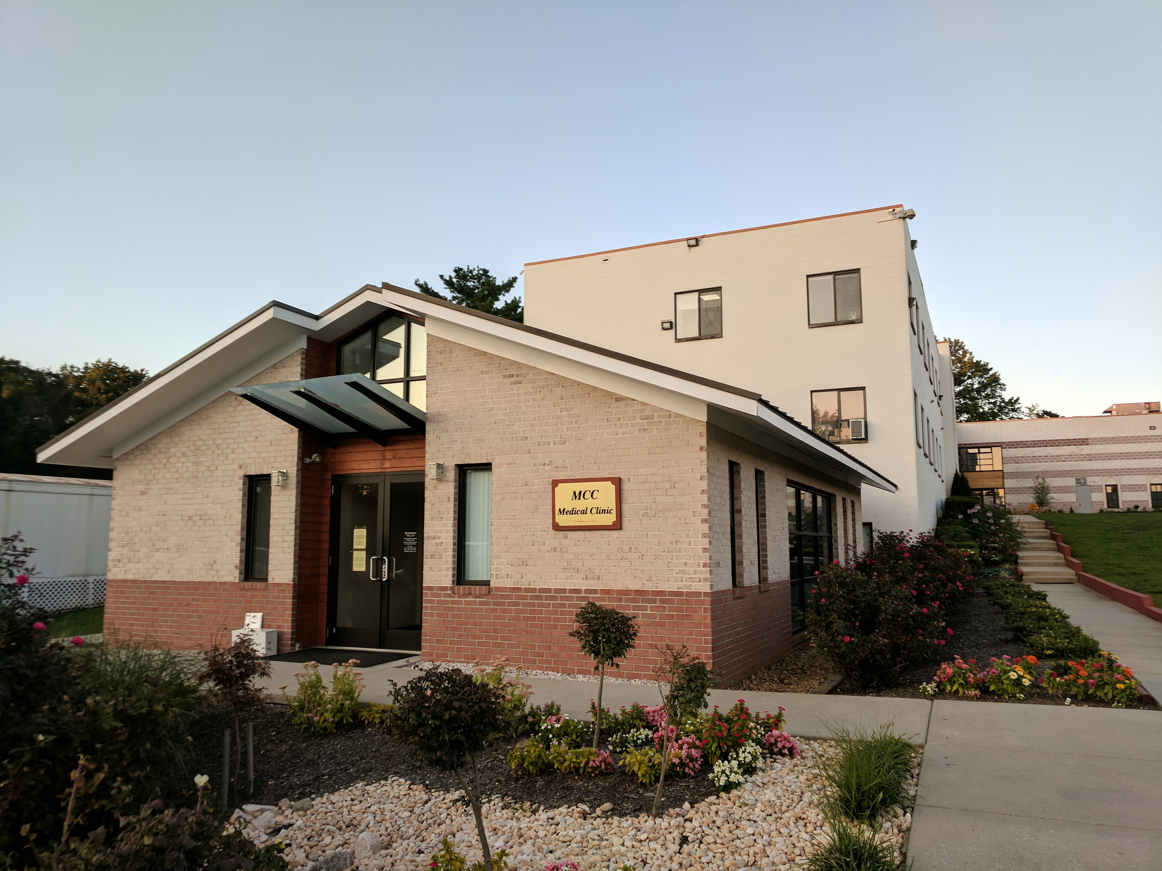 Muslim Community Center Medical Clinic in Colesville, Montgomery County, Maryland.